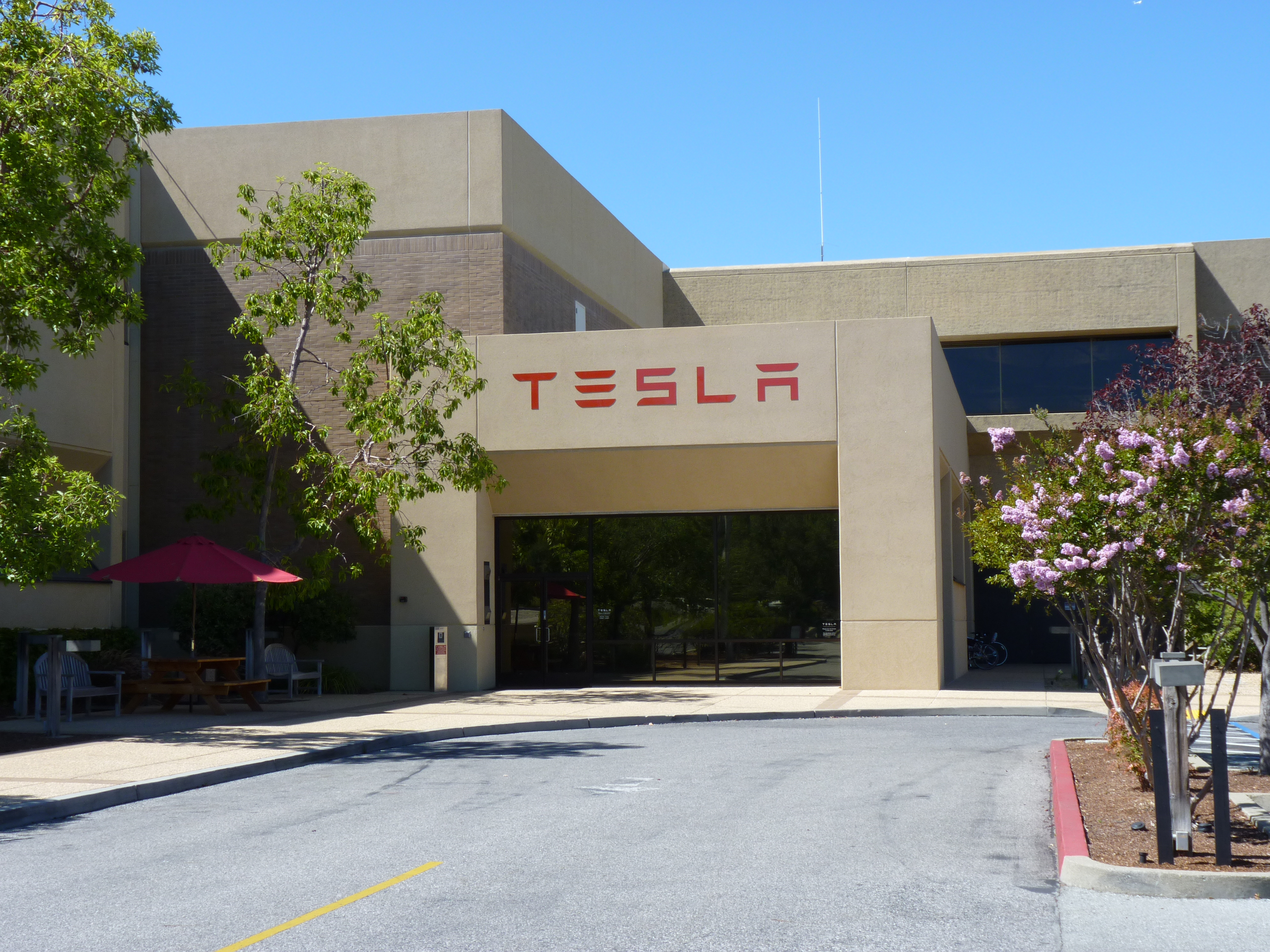 Headquarters of Tesla Motors Inc., located in Palo Alto, CA, USA